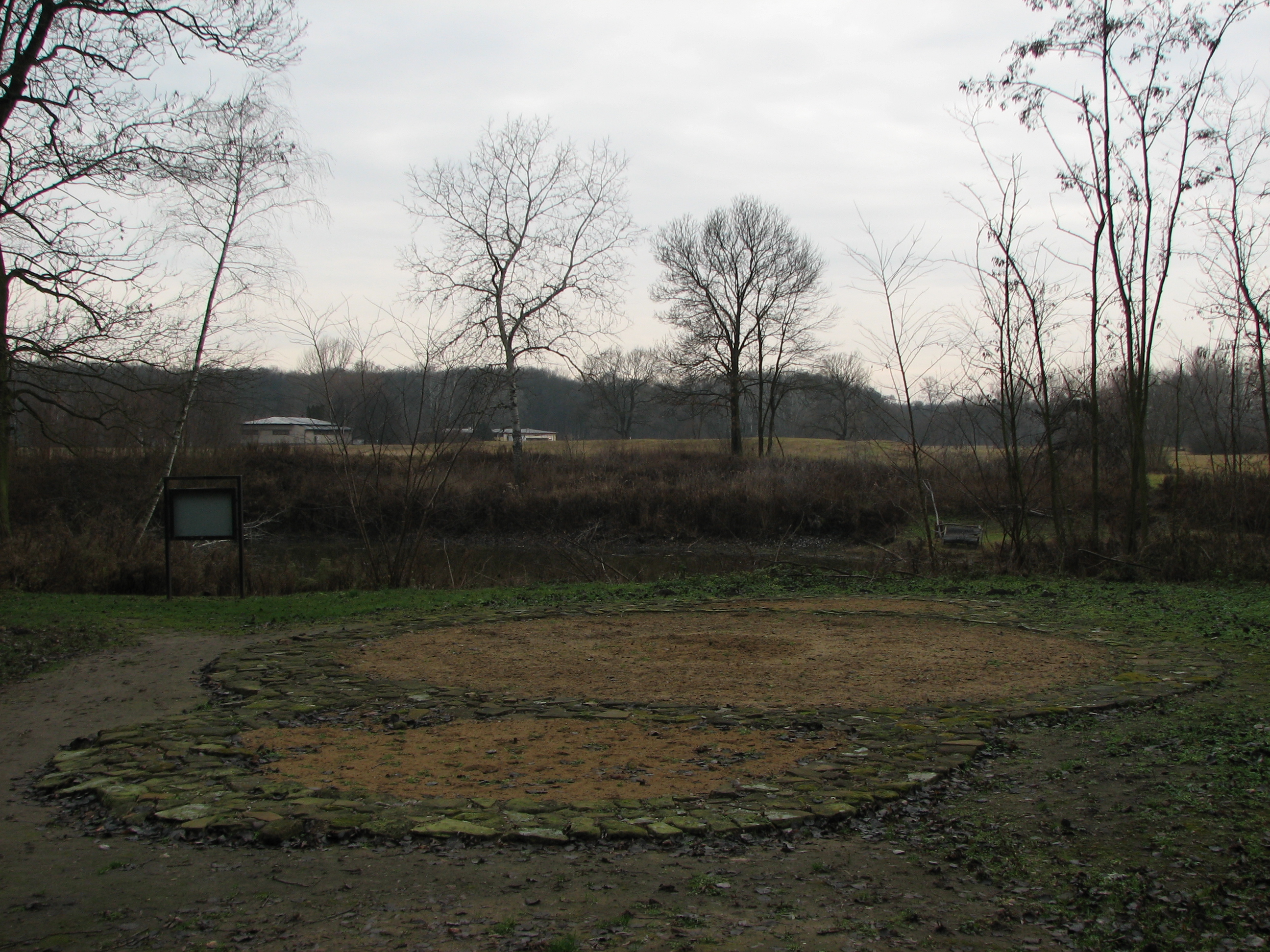 Archaeological museum Mikulčice valy - stone foundations of a church